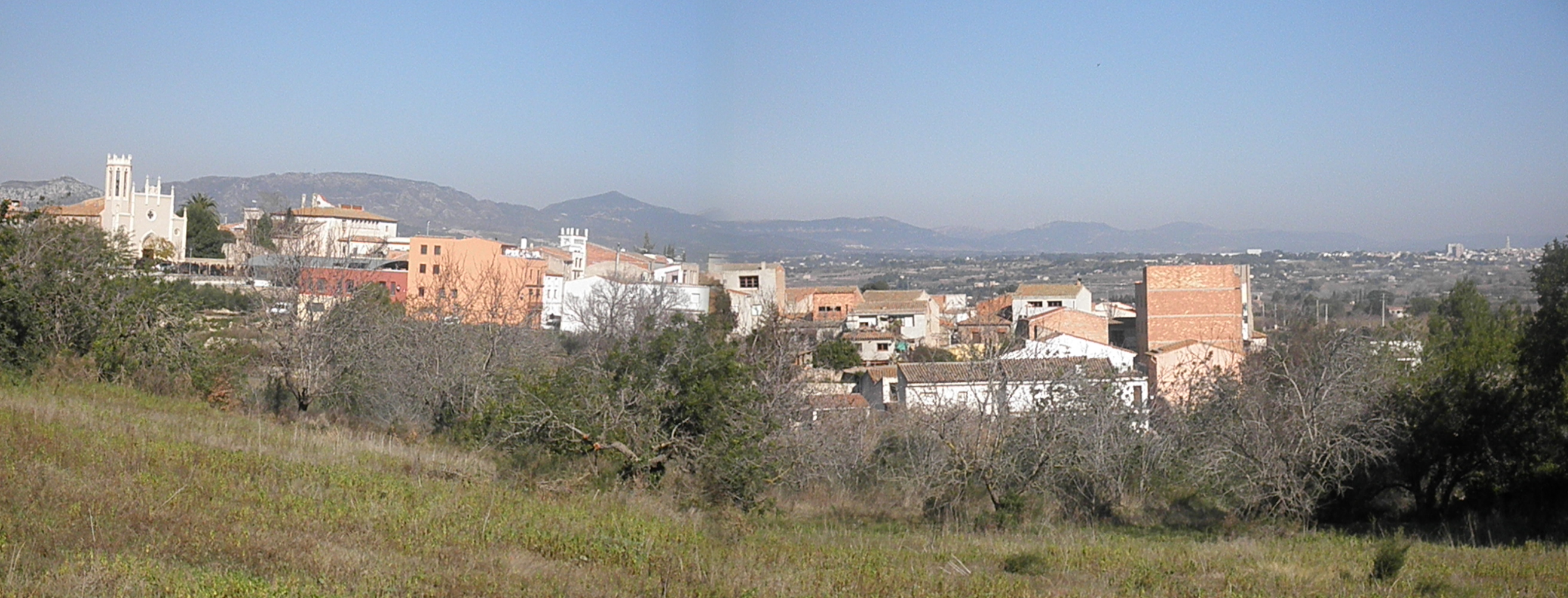 The panoramic view of El Milà from a nearby hill.